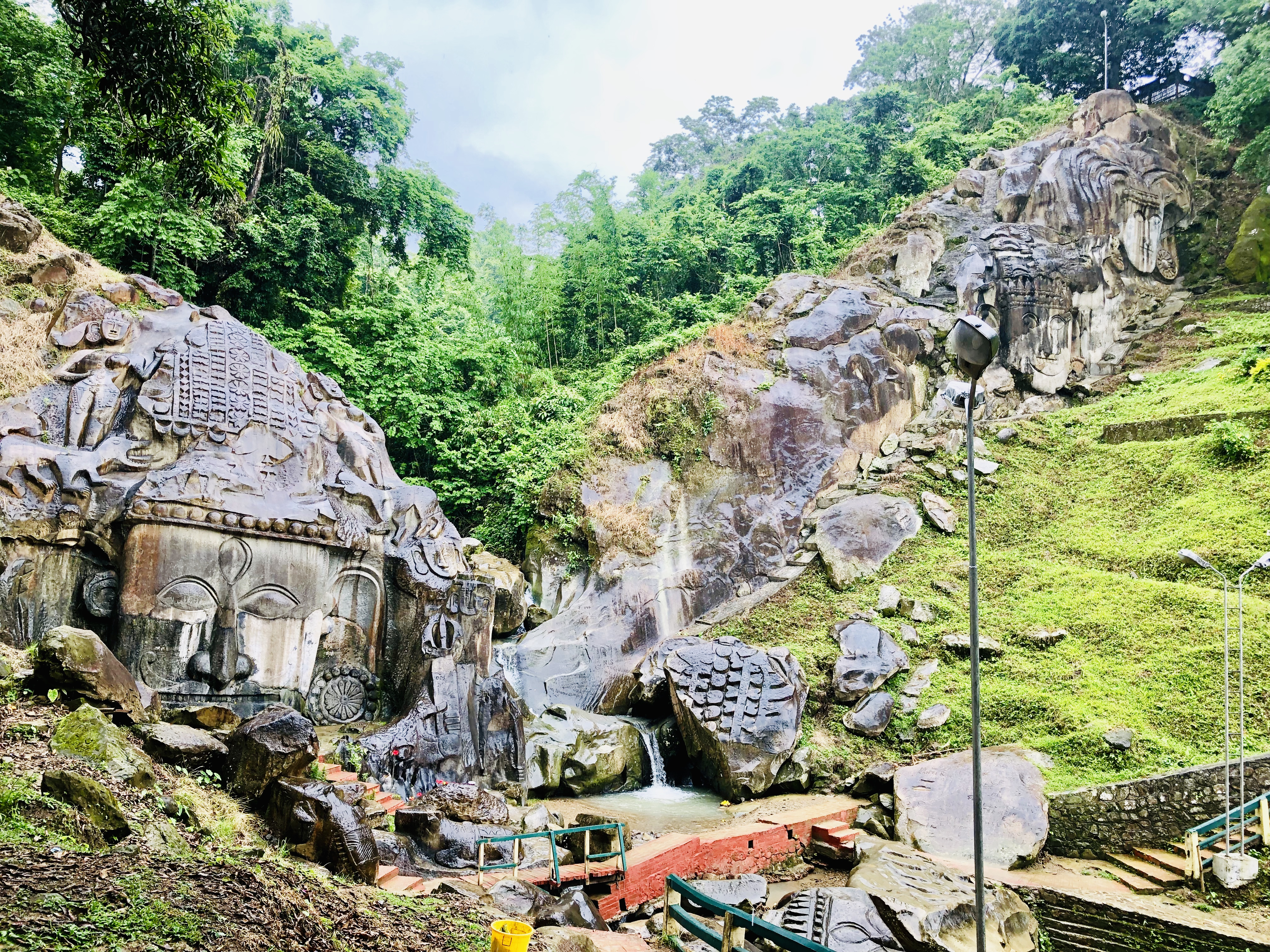 Igneous rock wall and images